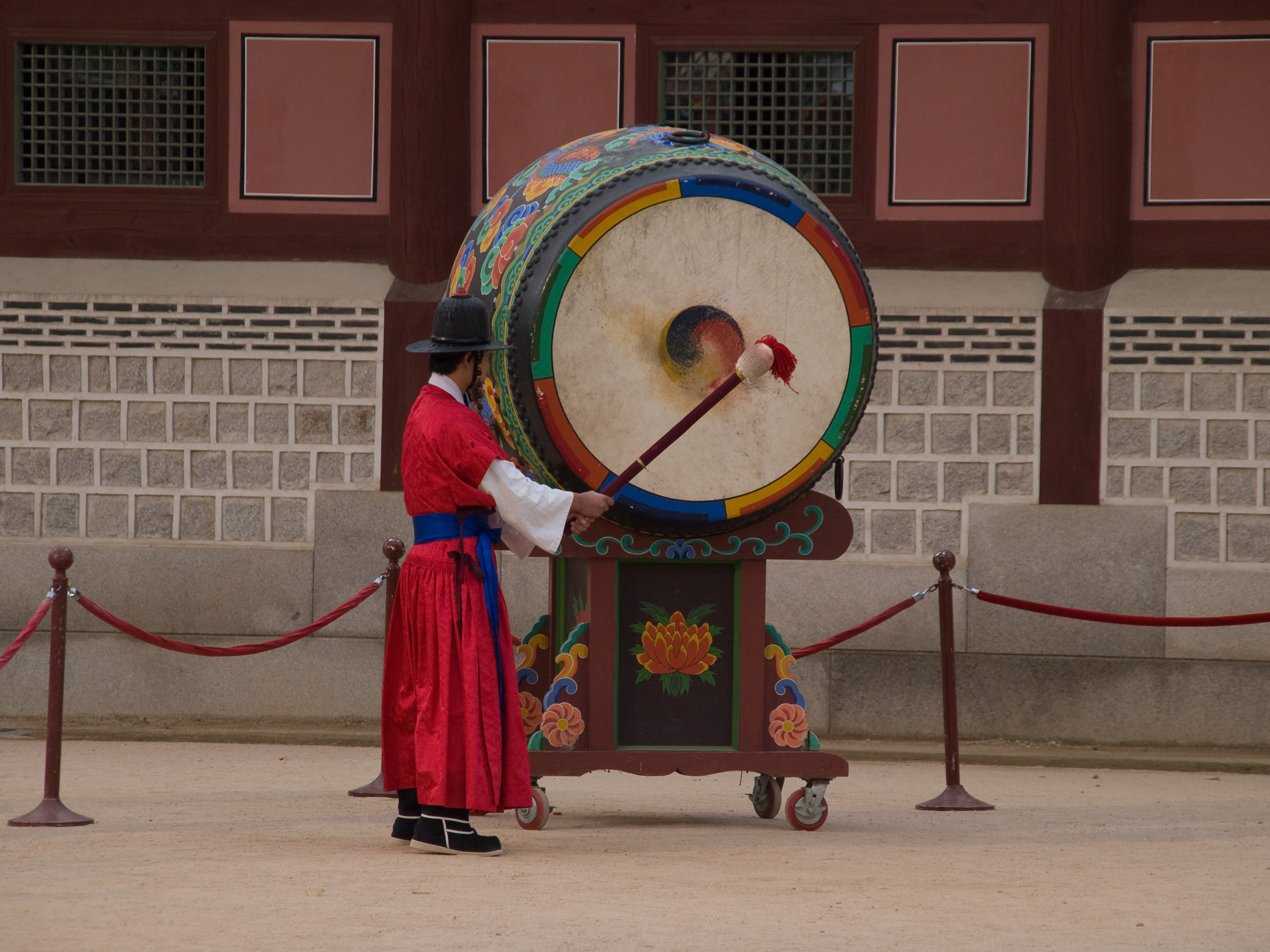 The changing of the guard ceremony at the Gyeongbokgung Palace.